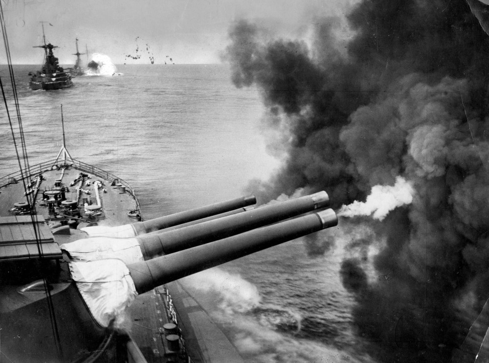 The 15-inch guns of British battleship HMS Valiant firing.